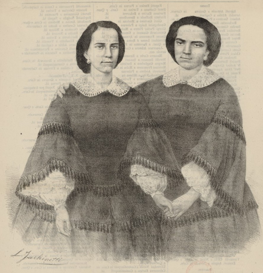 Portrait of Barbara Marchisio (1833-1919) (left) and her sister Carlotta Marchisio (1835-1872) (right)